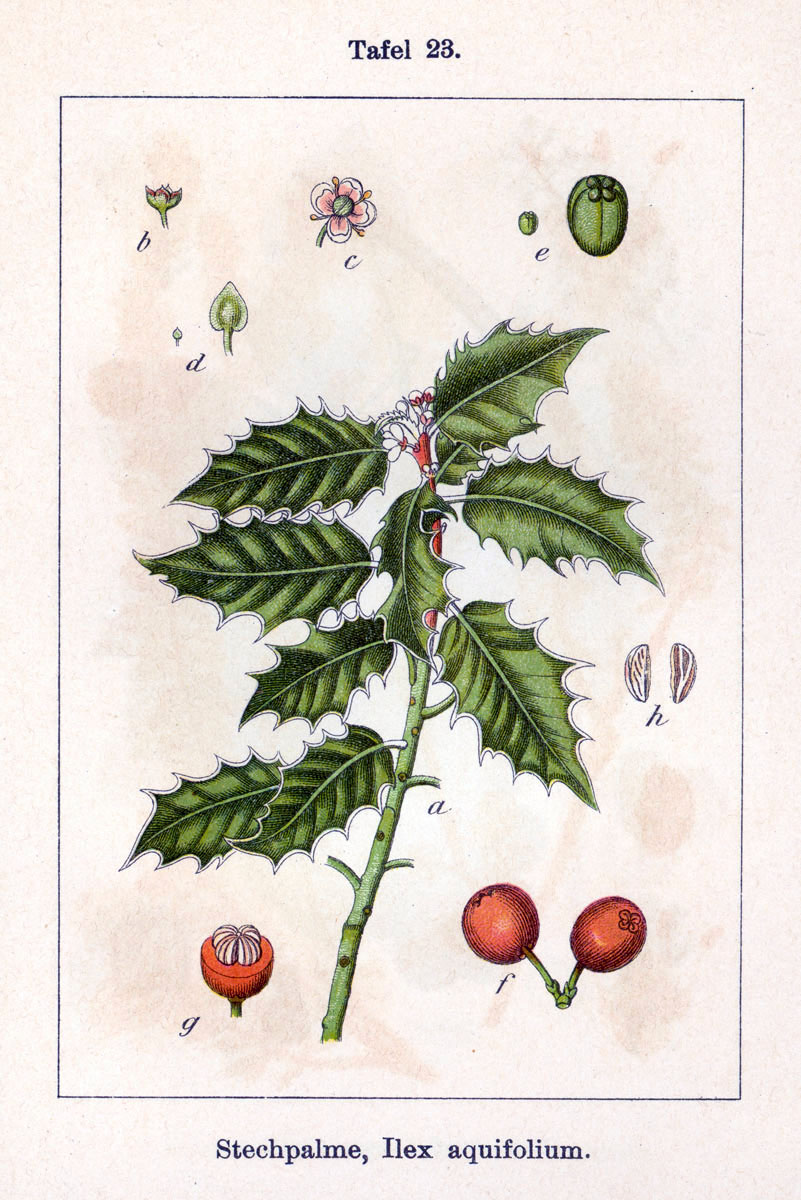 Ilex aquifolium L. Original Description Stechpalme, Ilex aquifolium